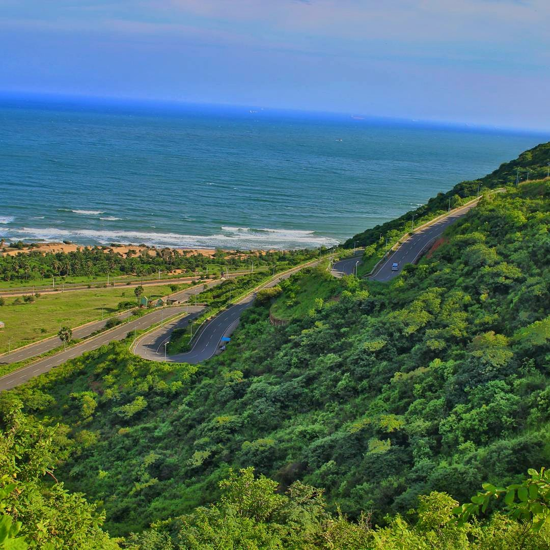 Ramanaidu studios